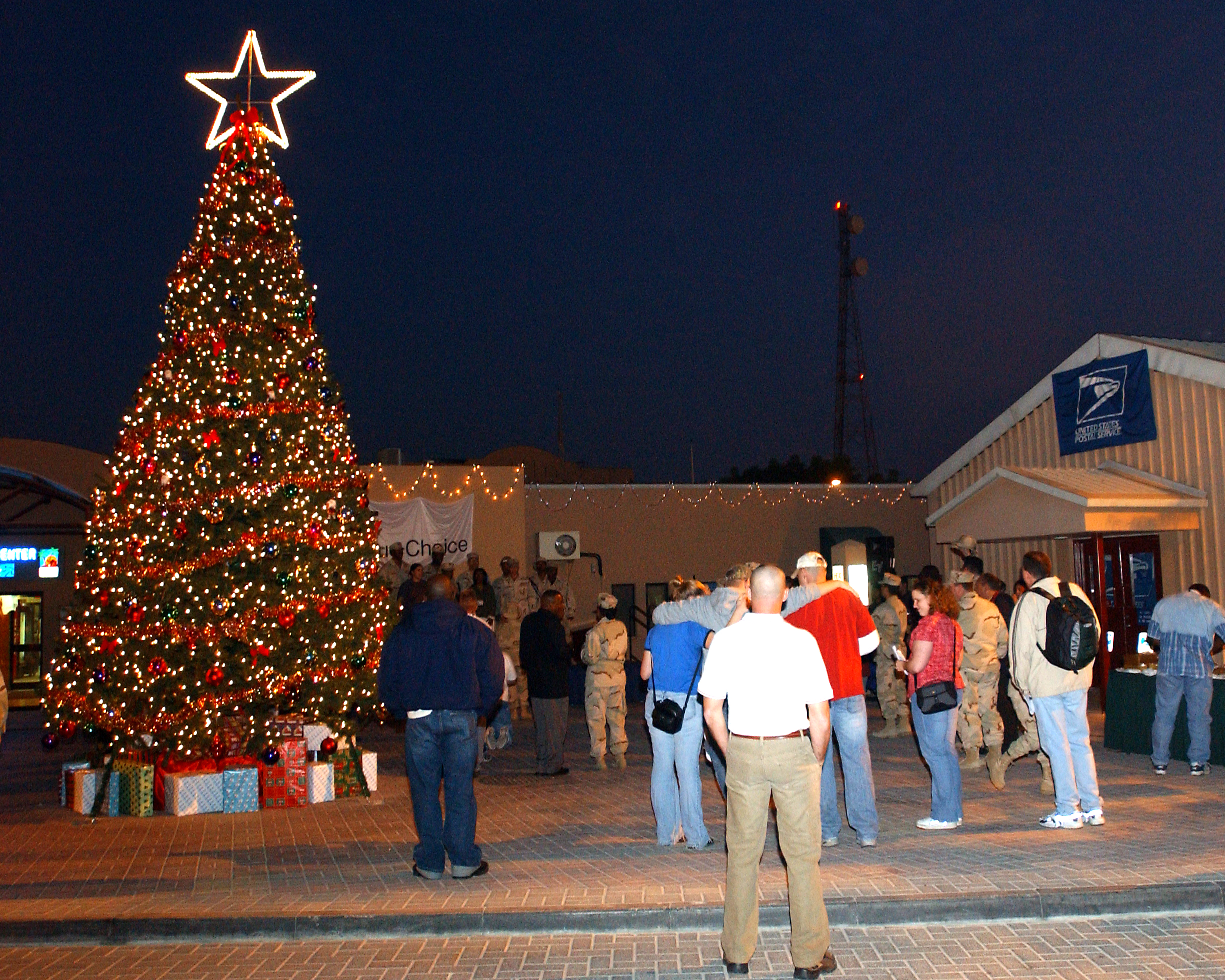 Bahrain (Dec. 6, 2004) - Sailors assigned to Naval Support Activity (NSA) Bahrain celebrate the holiday season by lighting the base Christmas tree and singing Christmas carols. U.S. Navy photo by Photographer's Mate 2nd Class Phillip A. Nickerson Jr. (RELEASED). Five-pinted star of Bethlehem finial on the top.